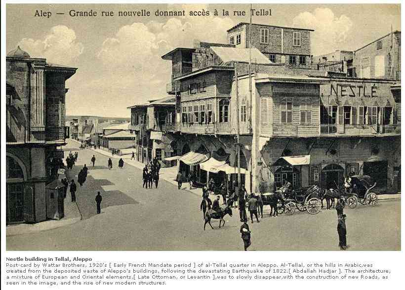 Aleppo, Nestle Company building at Tilel street in the 1920s